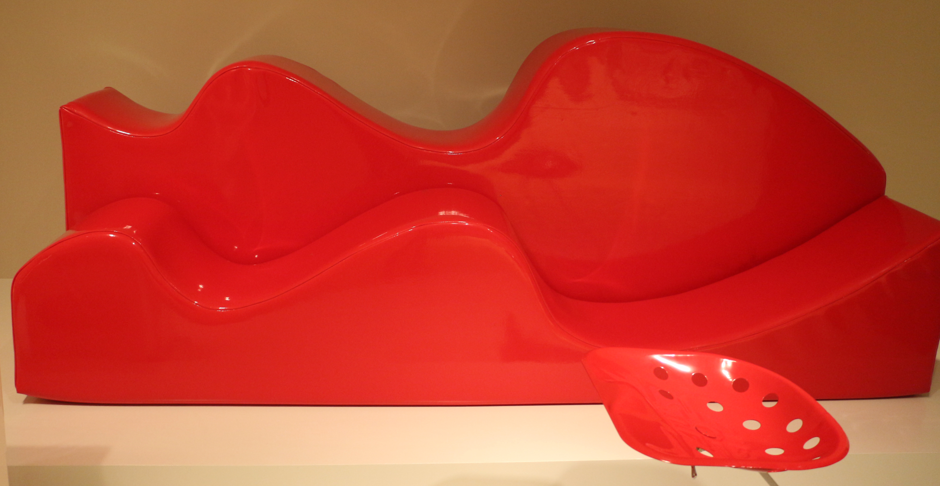 Furniture in the Indianapolis Museum of Art